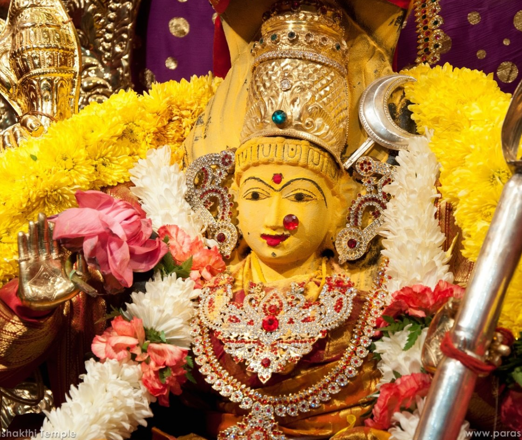 This is the picture of Divine Mother Parashakthi taken at Parashakthi Temple Navarathri Celebrations 2012